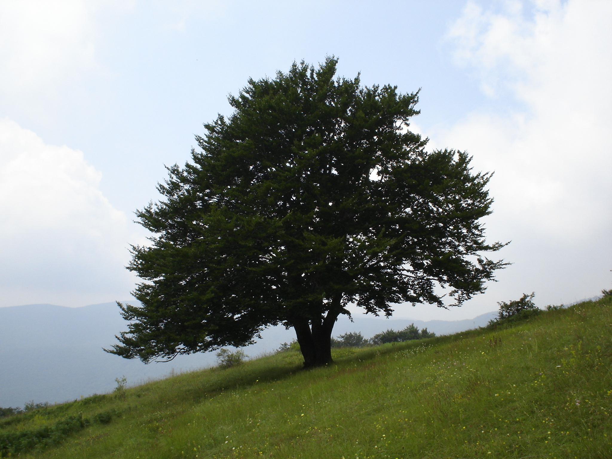 A lone beech Fagus sylvatica tree in the Sredna Gora mountains.